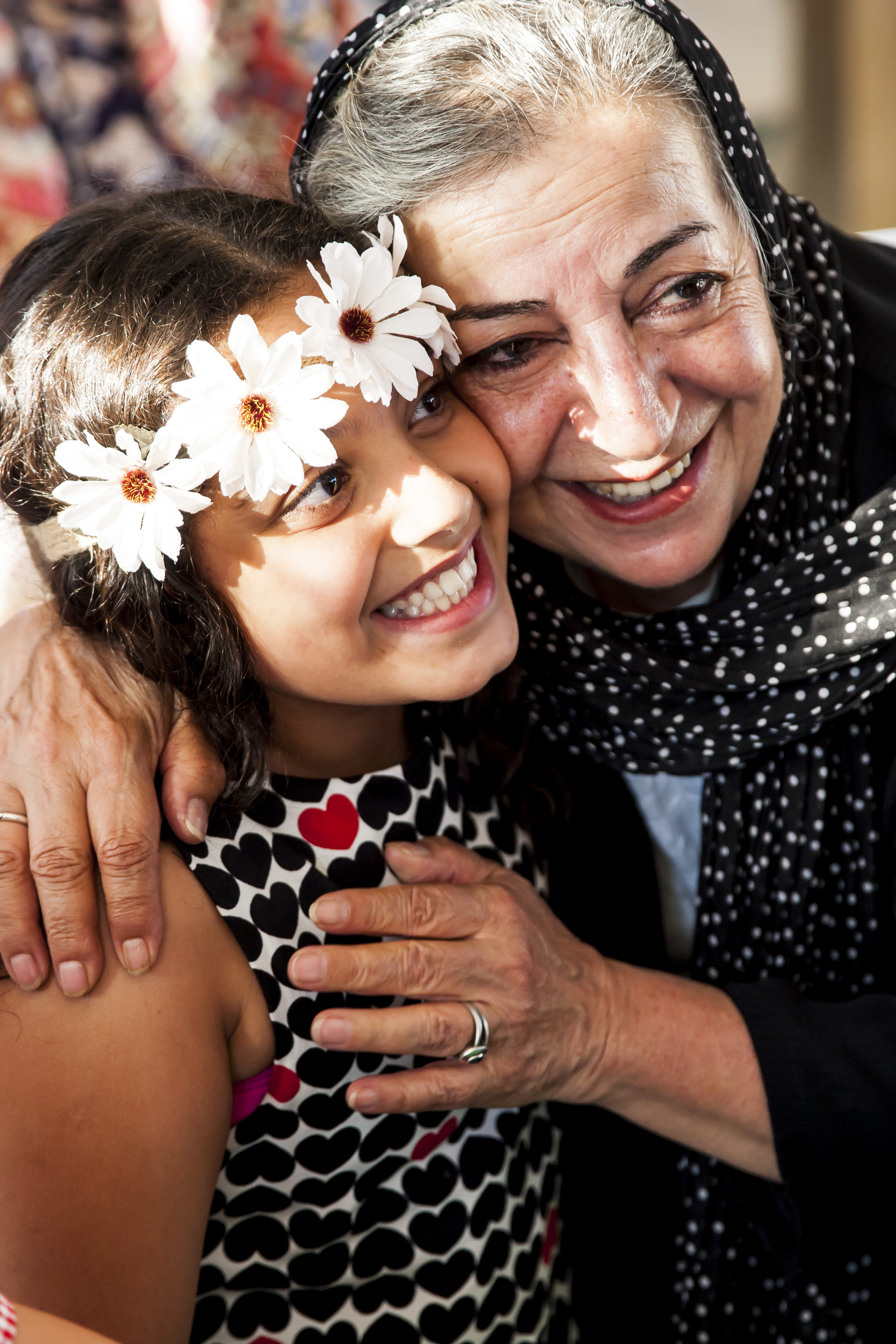 iGhe3, iGhese city - 2019